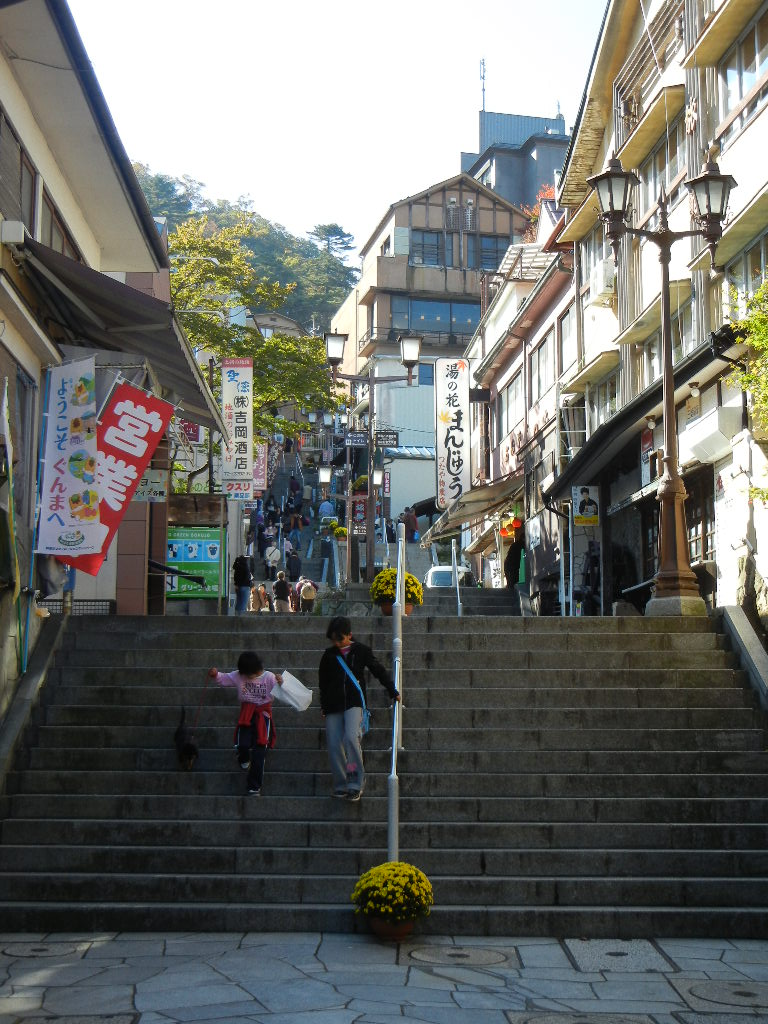 Ikaho_Ishidan_Street. 旅館や商店が並ぶ伊香保温泉の石段街, Shibukawa.